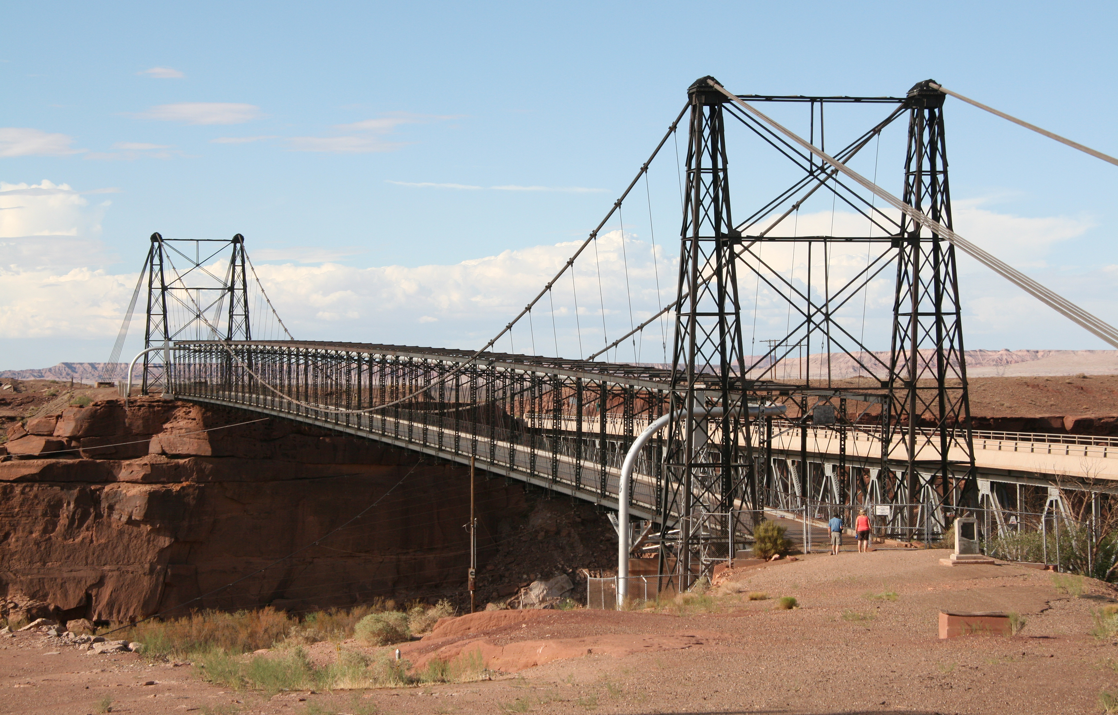 Cameron Suspension Bridge, Cameron, Arizona